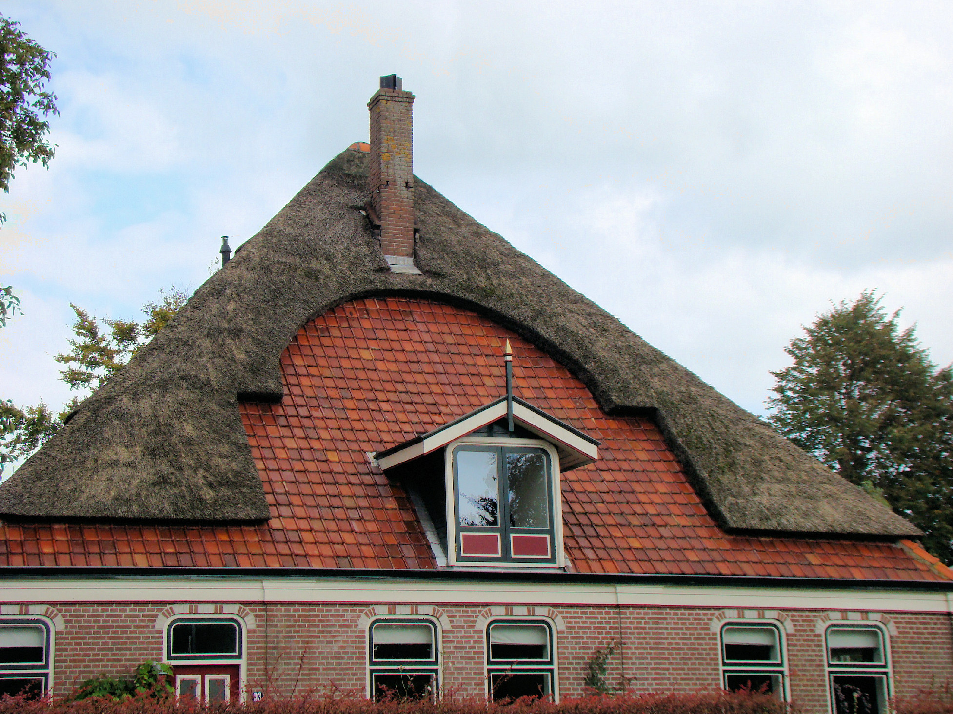 Partially thatched roof in Holland ('Noord Holland')